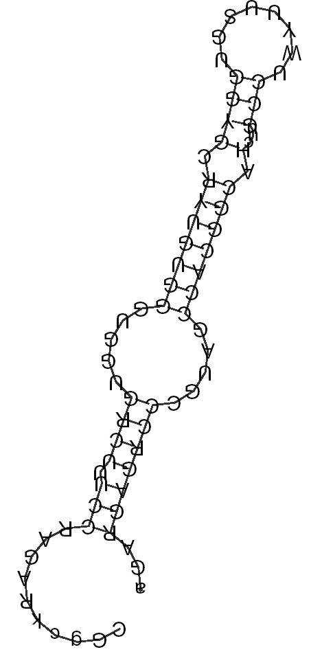 RNA secondary structure of TB10Cs4H4 generated by the WAR server( It is the consensus structure from 5 Trypansomatid species -Trypanosoma brucei, Trypanosoma brucei gambiense, Trypanosoma cruzi, Trypanosoma congolense, Trypansoma vivax --with some manual editing and redrawing of the structure with RNAplot from the Vienna RNA package